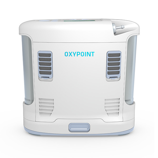 Inogen One G3 HF: the lightest portable oxygen concentrator on the market